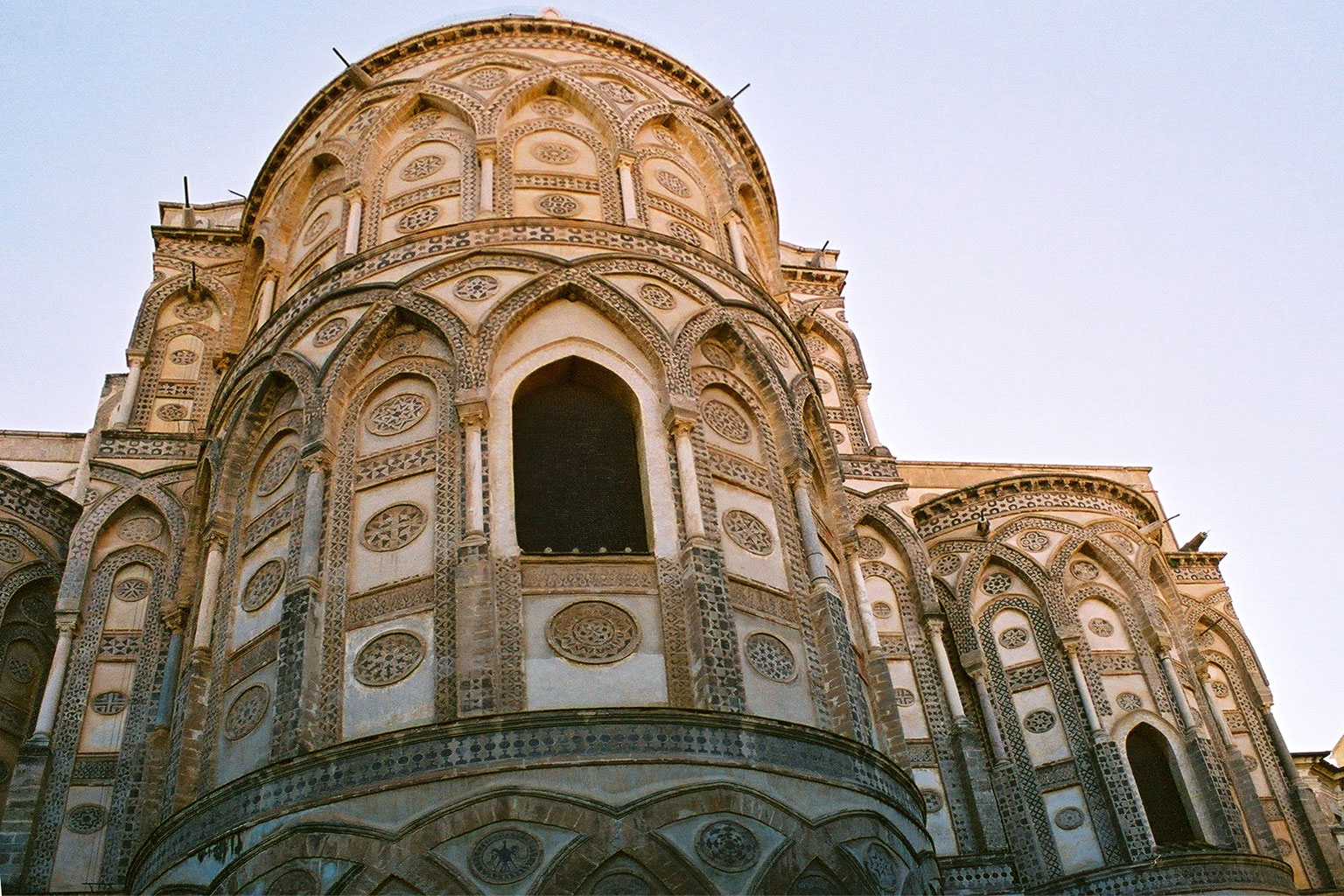 Cathedral of Monreale Rear apses